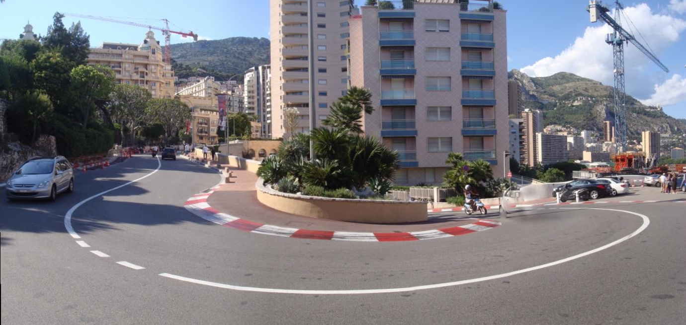 The Grand Hotel Hairpin in Monaco